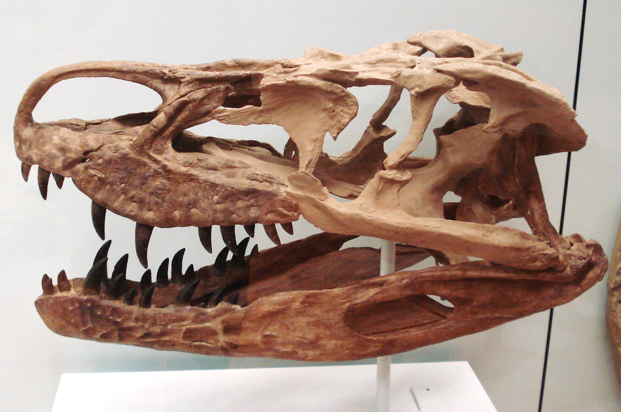 Skull restoration of Batrachotomus kupferzellensis GOWER 1999, an early representative of the crocodile lineage of the archosaurs from the upper Ladinian (upper Middle Triassic) Erfurt Formation of Kupferzell, northern Baden-Wurttemberg, SW Germany.